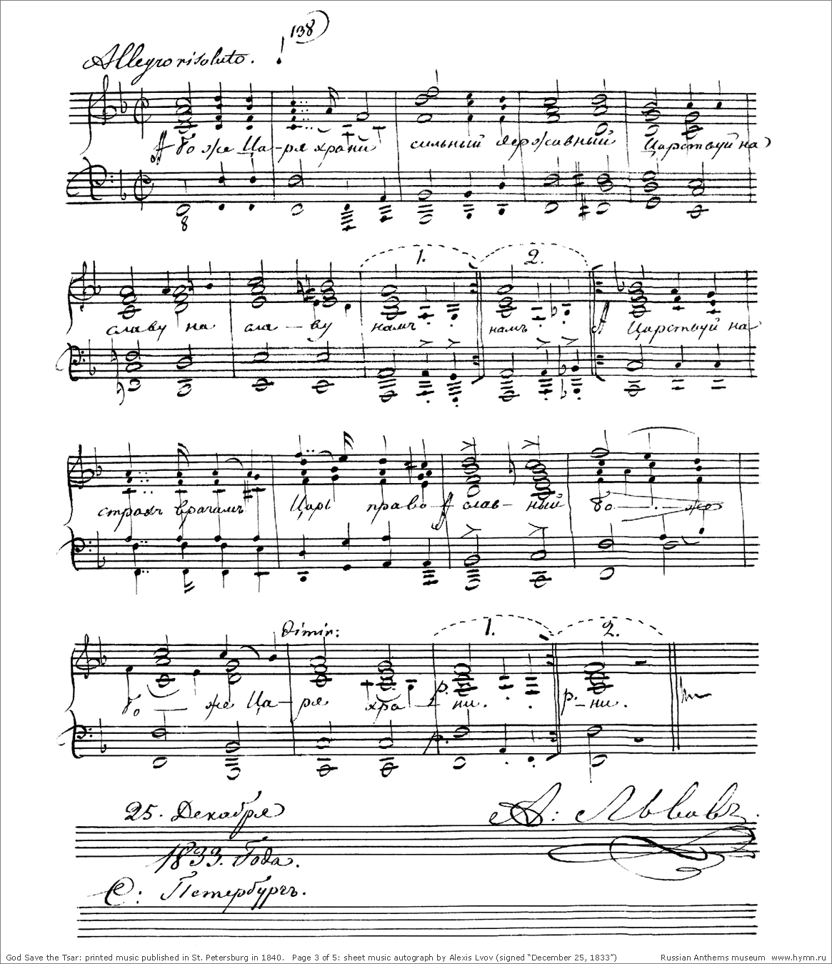 God Save The Tsar! The pages from printed music published in St. Petersburg in 1840, showing autographs of sheet music and lyrics by Lvov and Zhukovsky, respectively, as well as German and French translations.